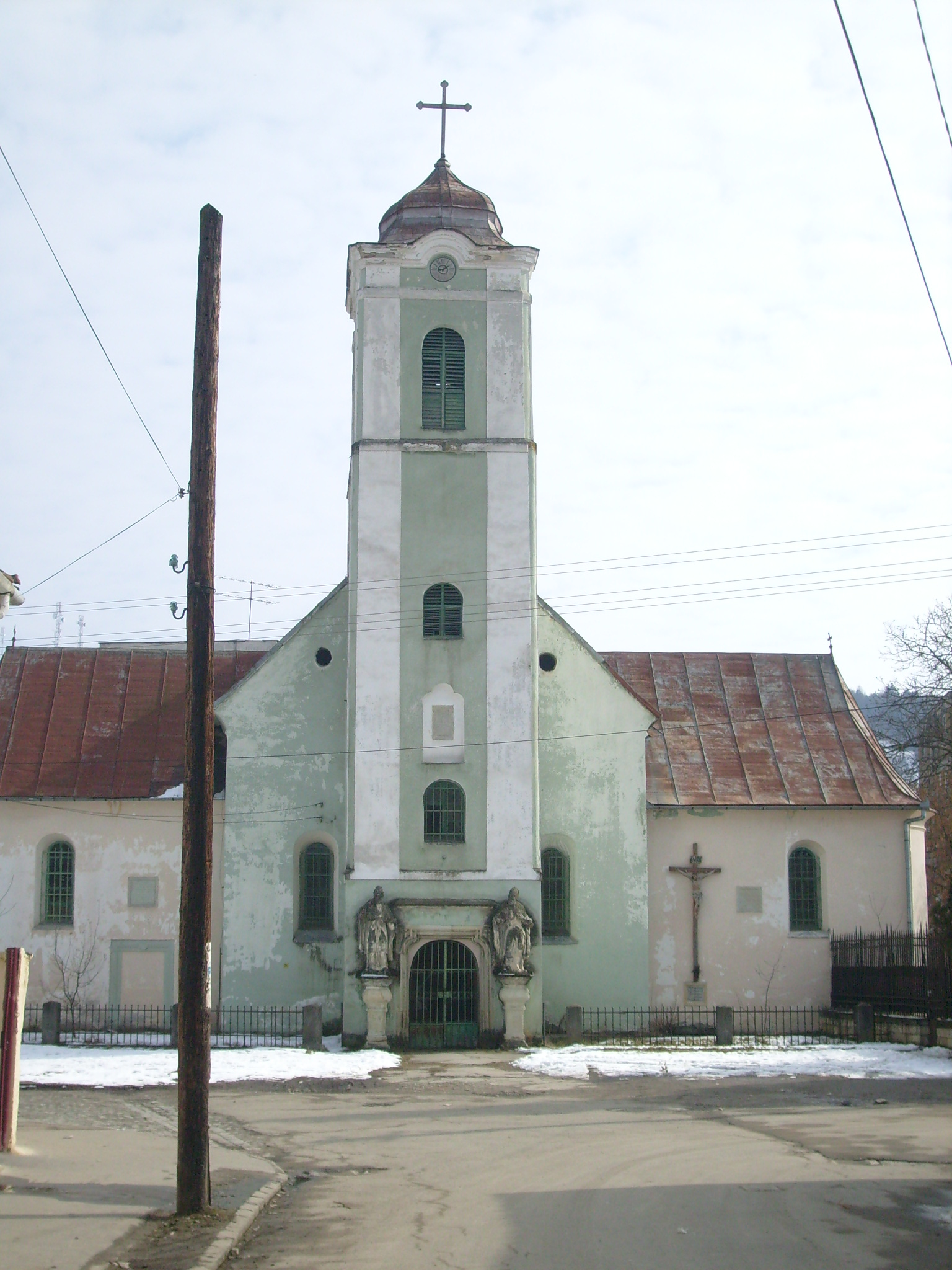 Solomon Church in Gherla.